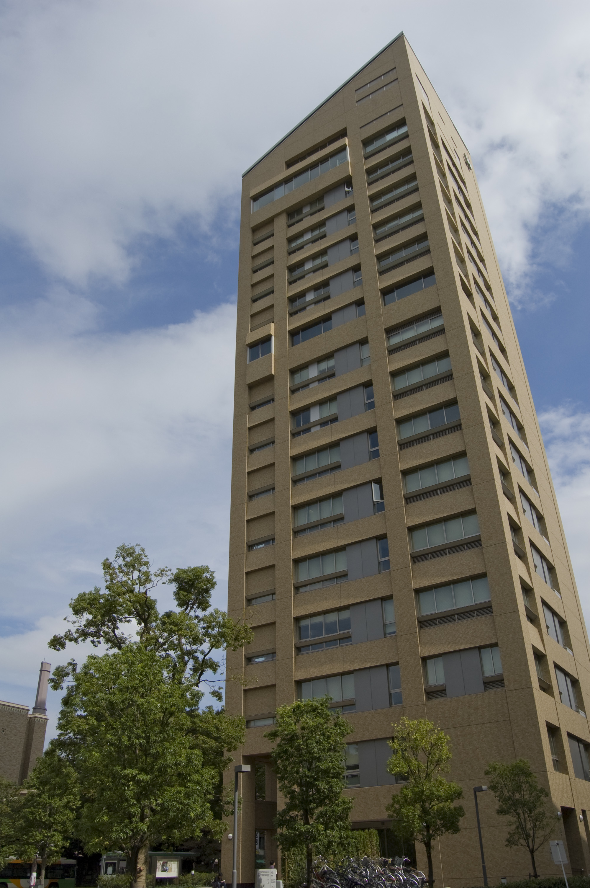 The Okuma School of Public Management